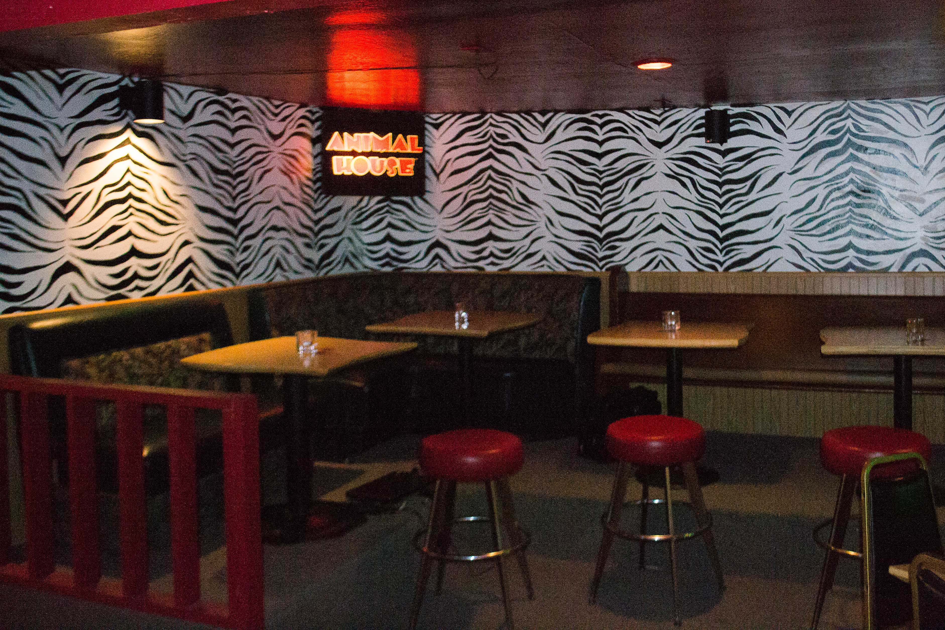 The corner booth in the Dexter Lake Club